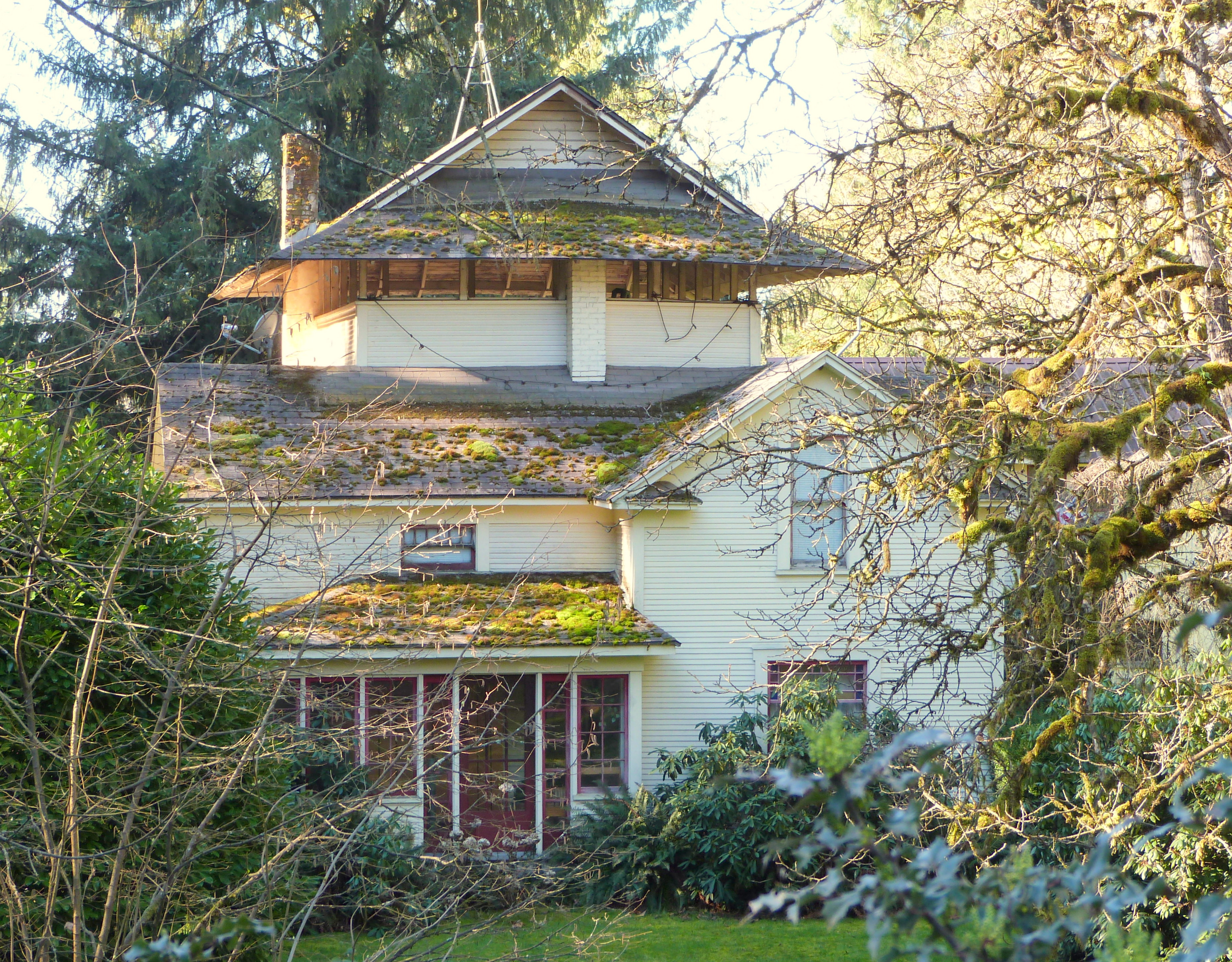 The historic Albert and Letha Green House (built ca. 1885), located at 25716 Northeast Lewisville Highway near Battle Ground, Washington, United States, is listed on the US National Register of Historic Places.